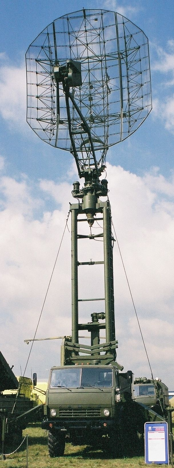 Kasta 2E2 antenna truck at MAKS 2005